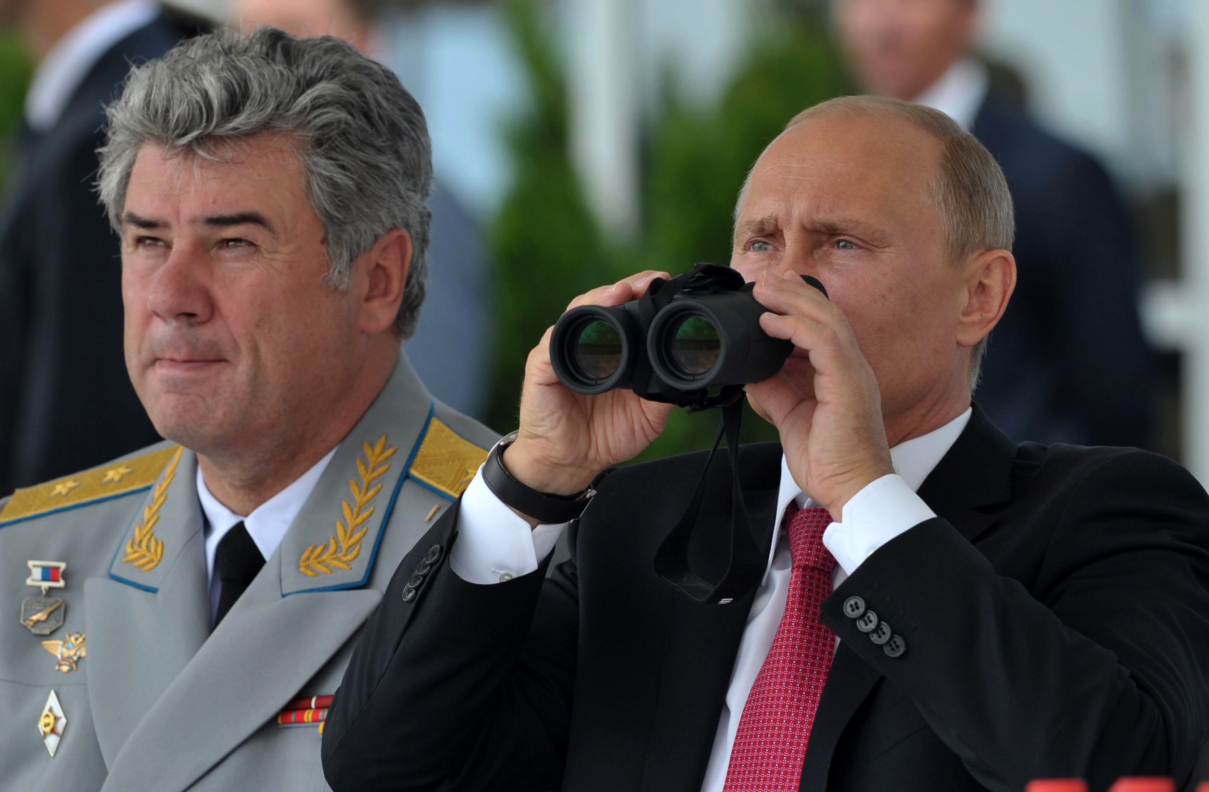 The Commander-in-chief of the Russian Federation's Air Force, Lieutenant-general Viktor Bondarev in 2012.